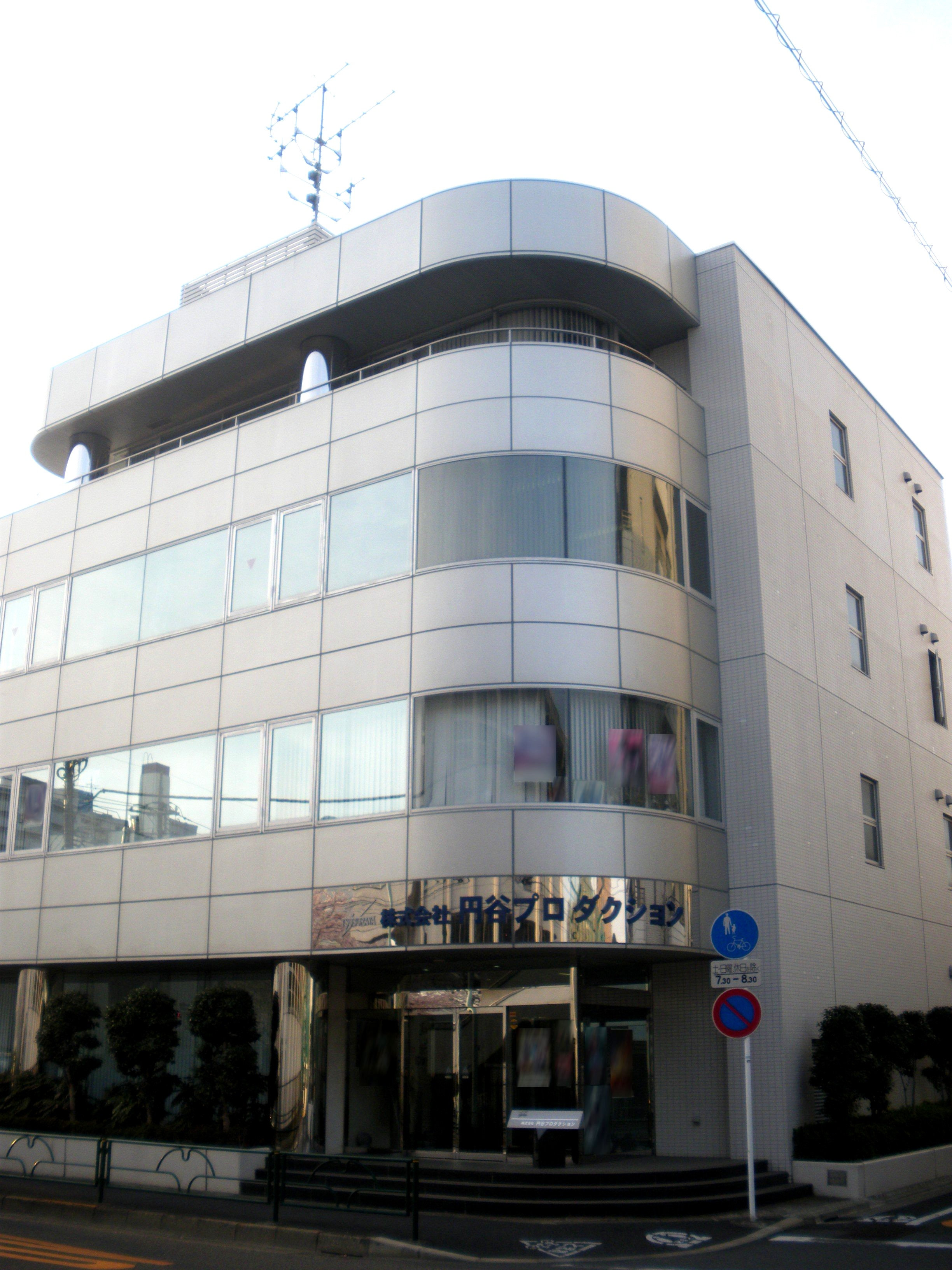 A photo of Tsuburaya Productions Co., Ltd(Tsuburaya Production) head office,Hachimanyama,Setagaya-ku,Tokyo,Japan.